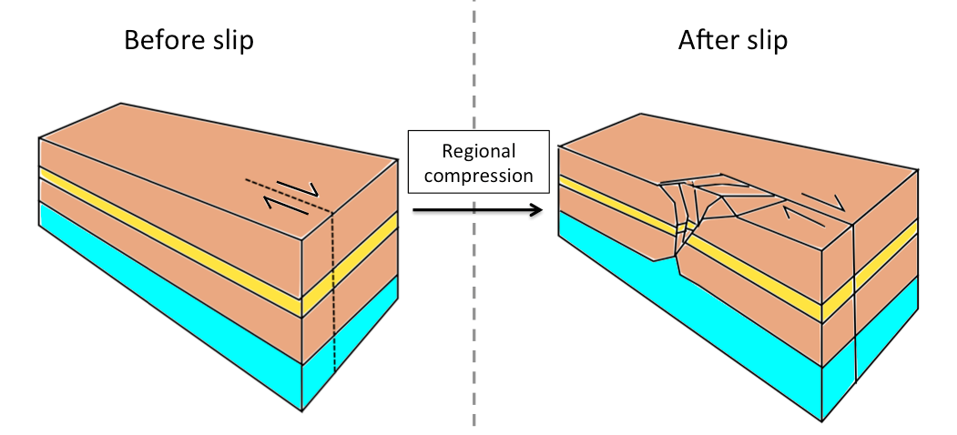 before and after slip(3)